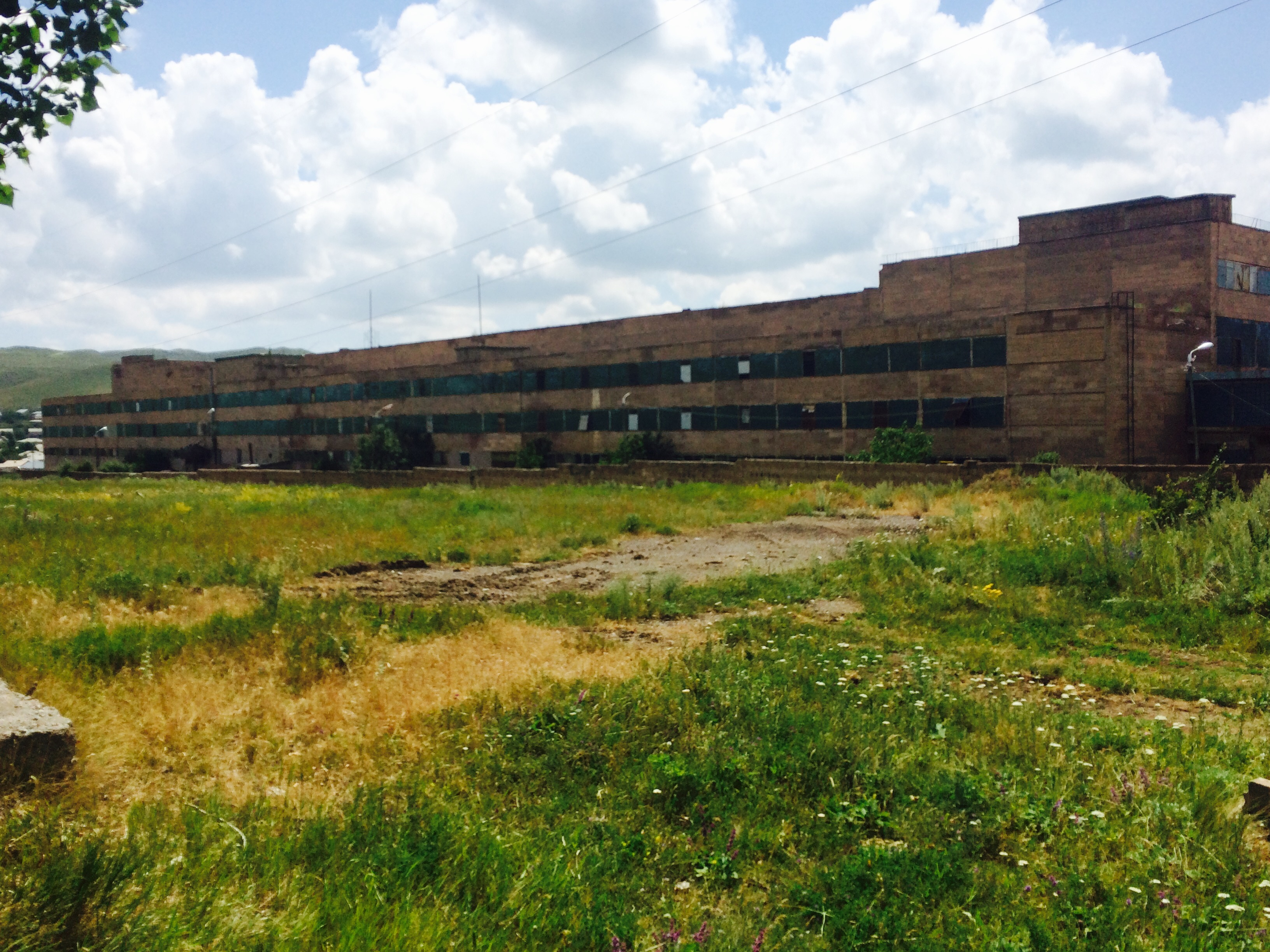 Maralik cotton-spinning mill.